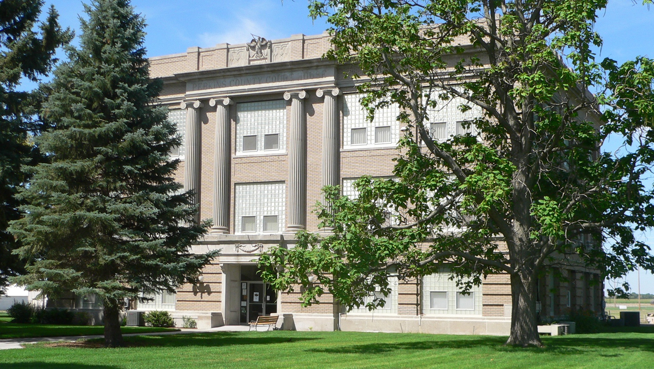 Perkins County courthouse in Grant, Nebraska; seen from the northeast.